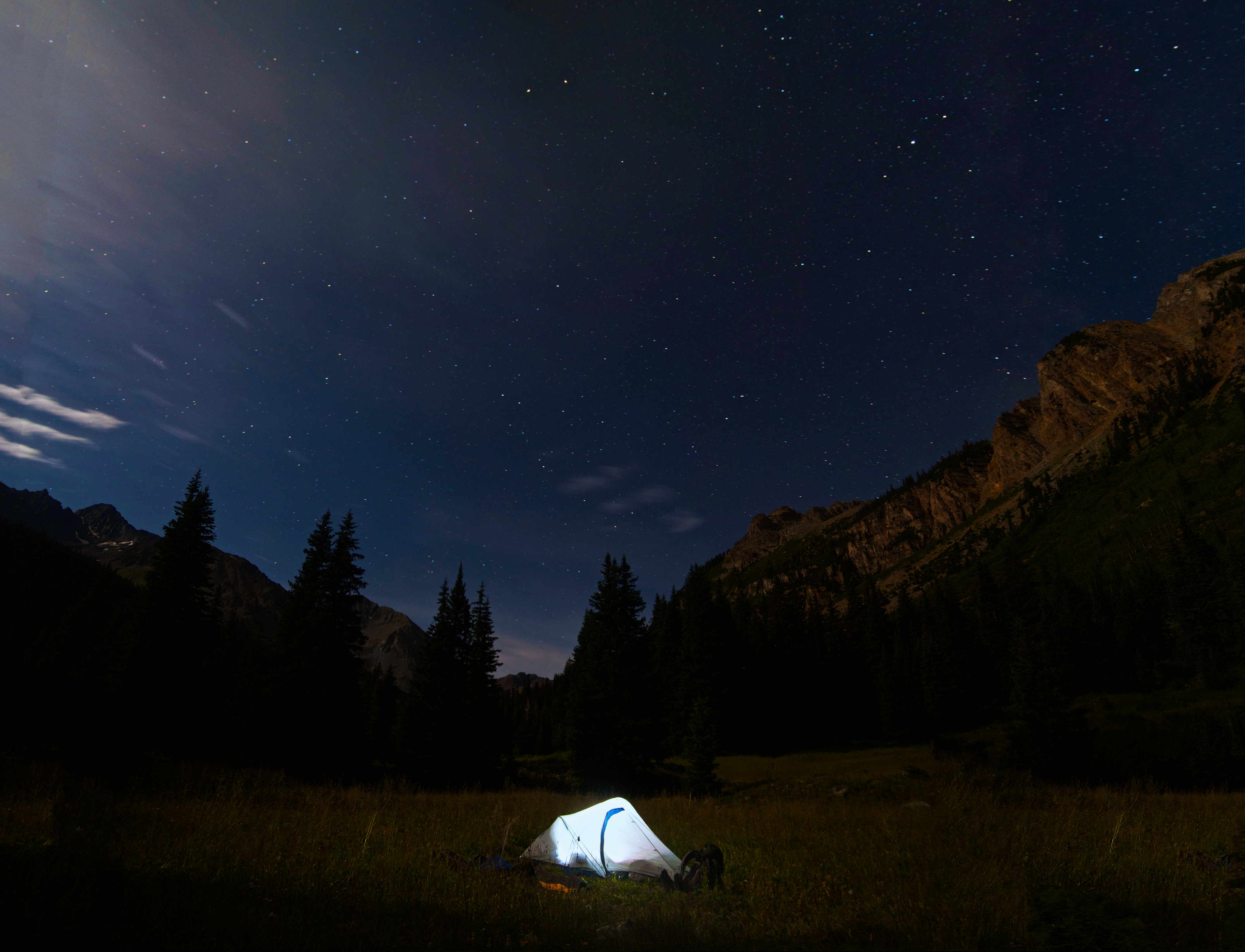 Don't you just hate it when you can't even see the stars because of all the artifical light sources everywhere? Its sad really